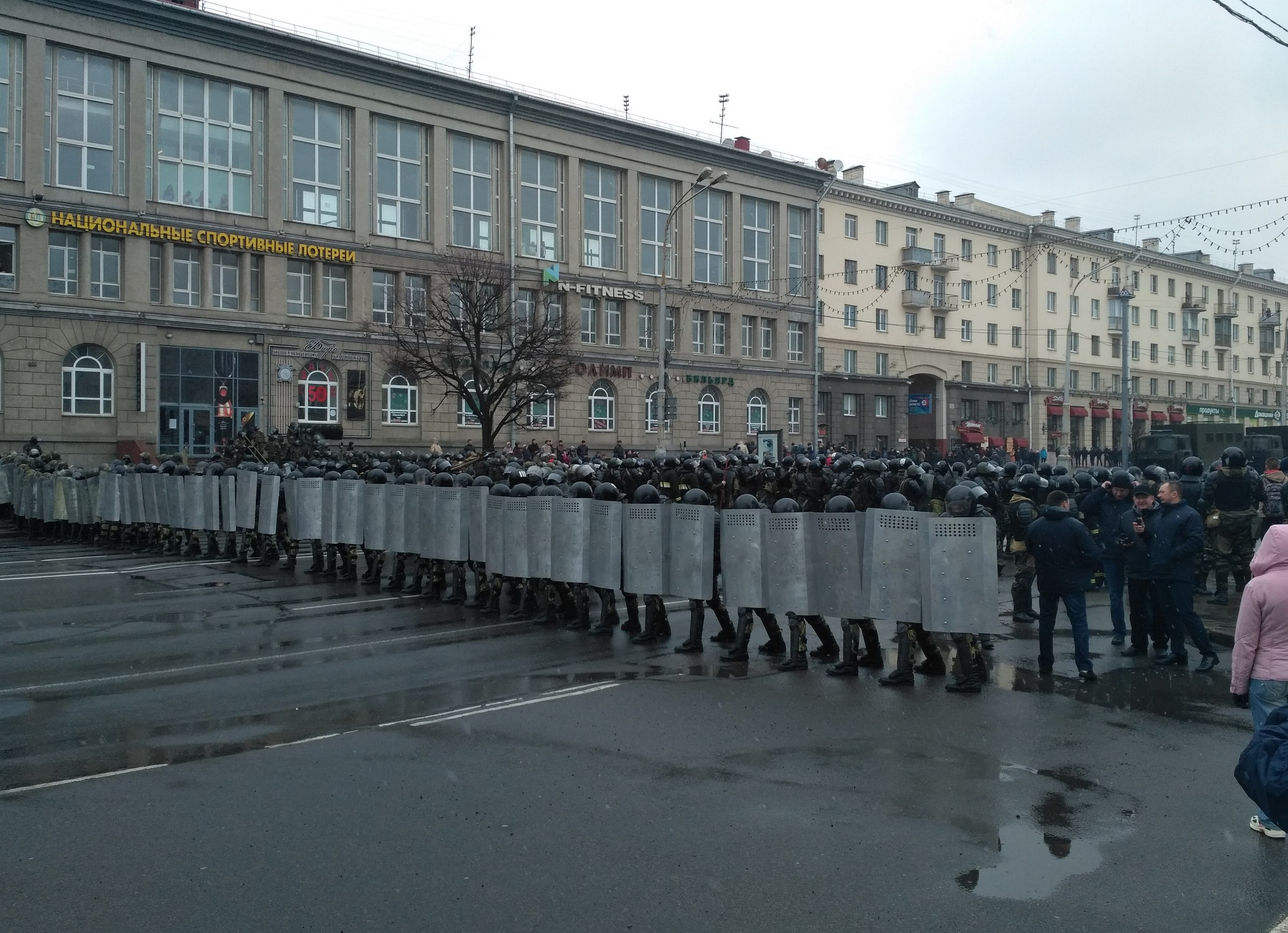 Belarus protest in Minsk 25.03.17